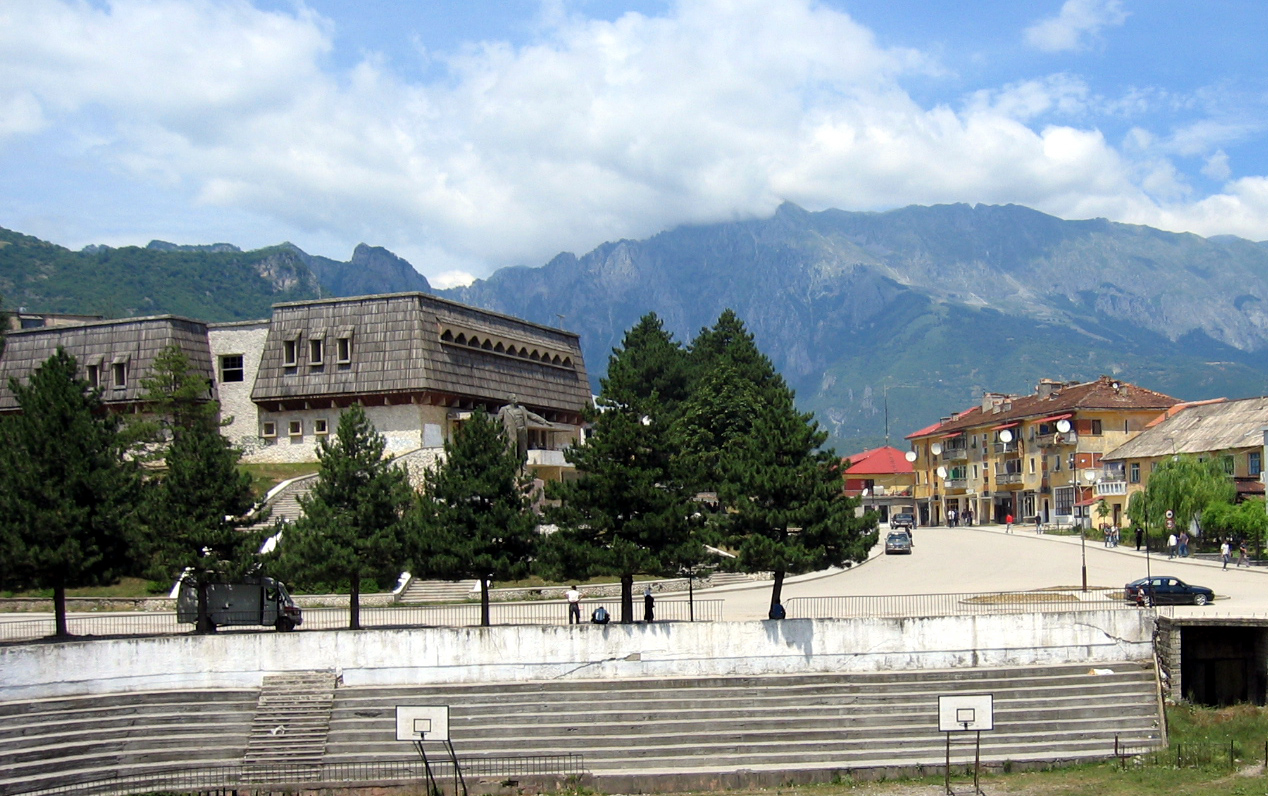 Central square in the city of Bajram Curri, Albania, with cultural centre and statue of Bajram Curri